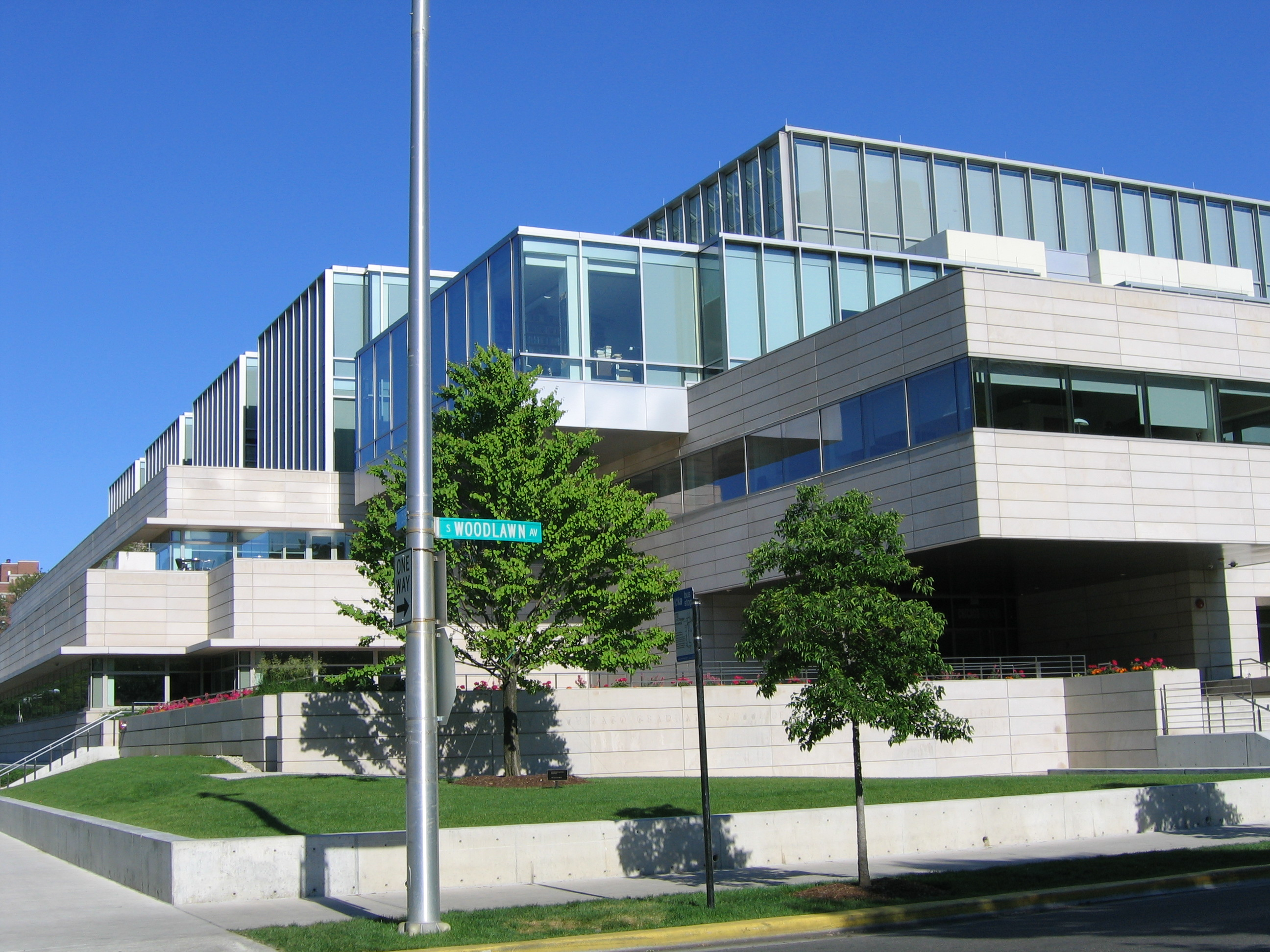 Graduate School of Business of the University of Chicago. Photographed by Dennis Brennan on June 3 2006.